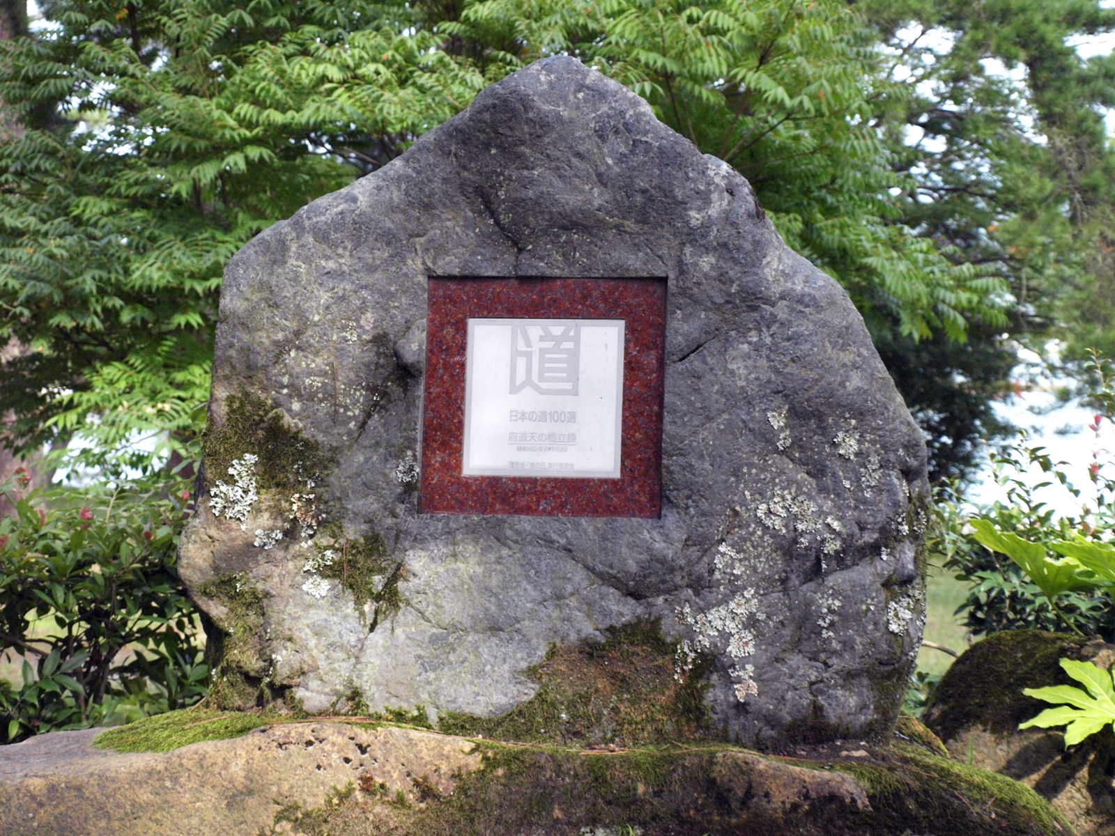 The monument of Amanohashidate road, Remarkable 100 roads in Japan No.58.